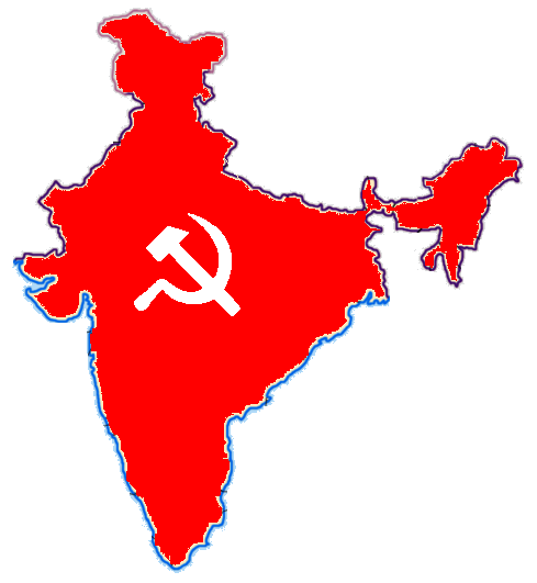 Map of India with the hammer and sickle symbol of the Communist Party superimposed on it